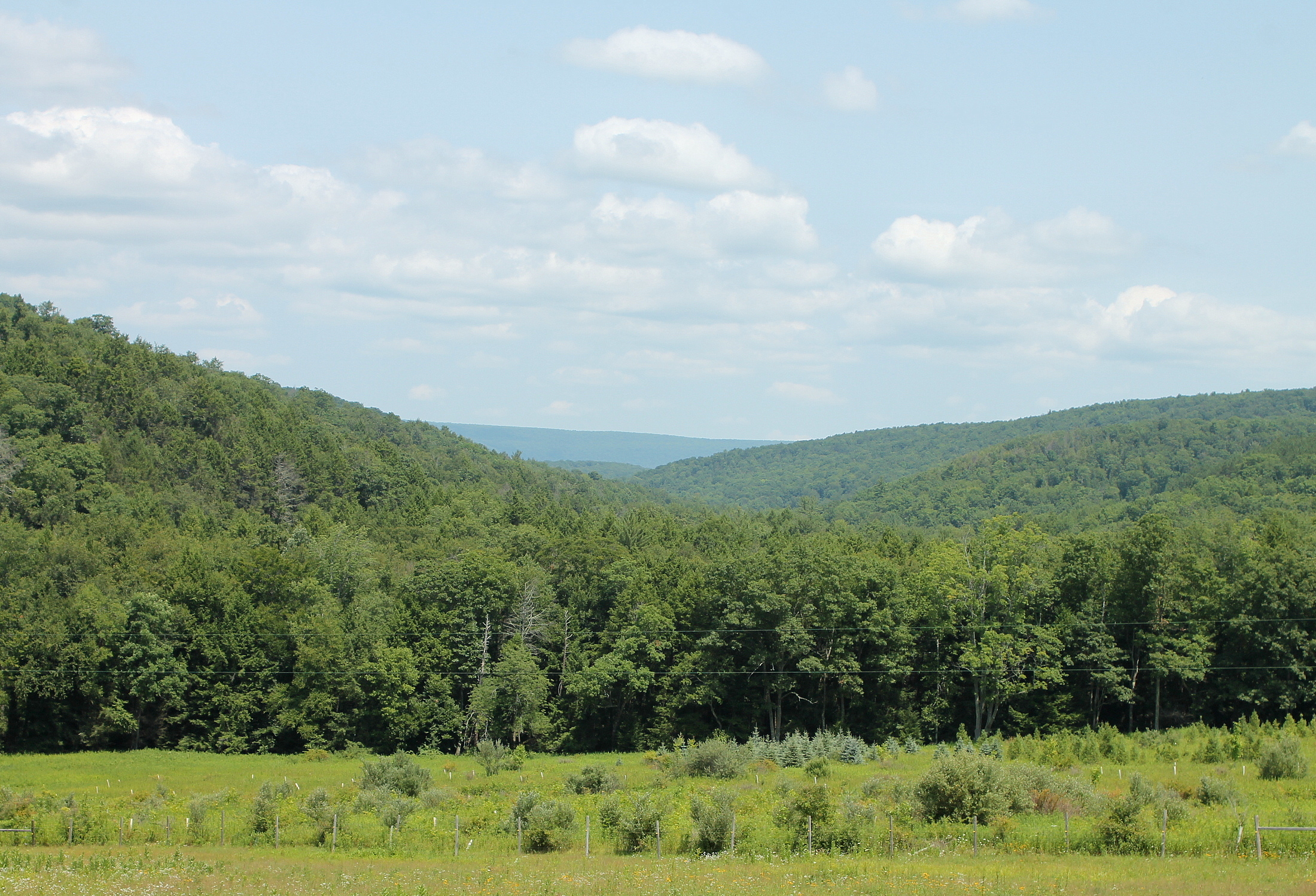 View of Jackson Township, Columbia County, Pennsylvania from its southwestern corner. Several hills and North Mountain (the blue mountain on the horizon) are visible.